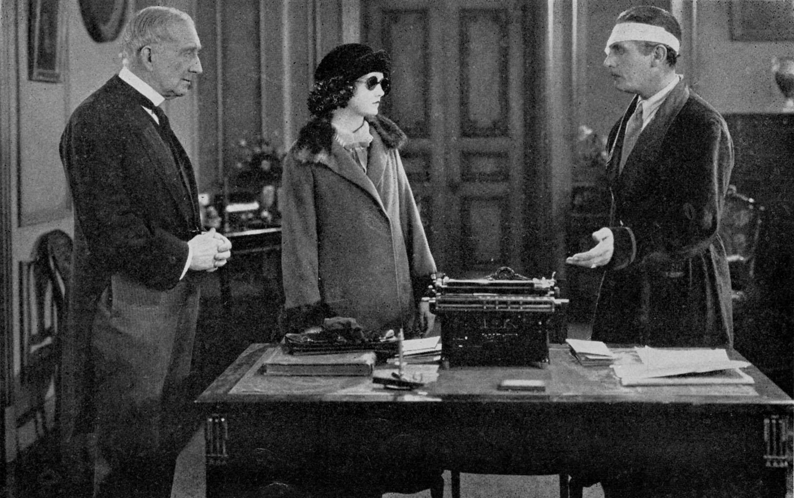 Alathea (Harriet Hammond) disguised with colored glasses and plain clothes arrives to take up her duties as secretary to Sir Nicholas (Lew Cody). A scene from "Man and Maid" for Metro-Goldwyn-Mayer.